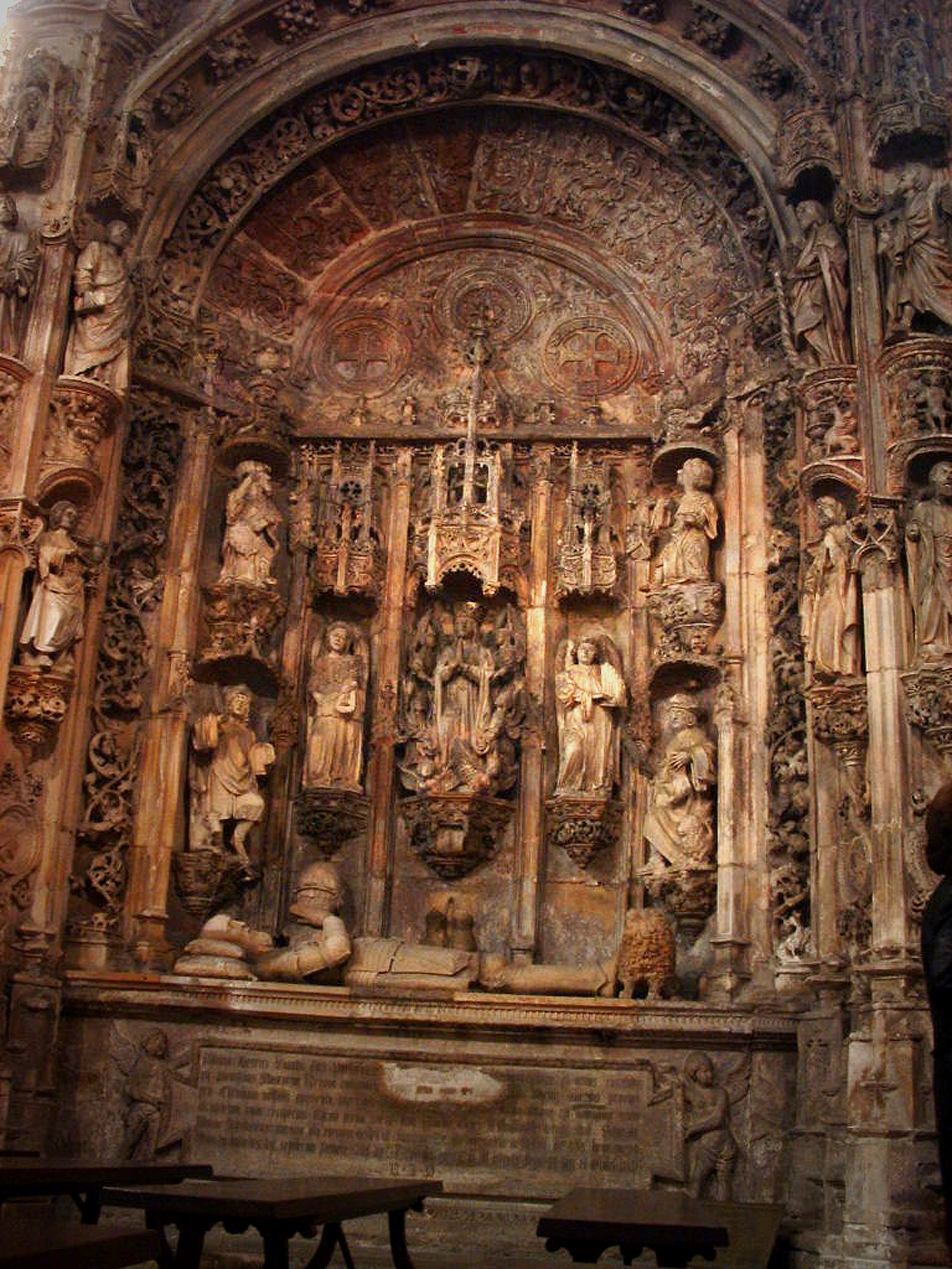 Mosteiro de Santa Cruz from inside. Tumular of Afonso I of Portugal (Afonso Henriques)